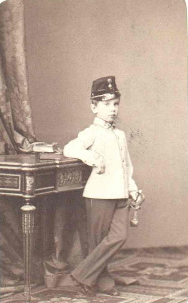 Crown Prince Rudolf of Austria.